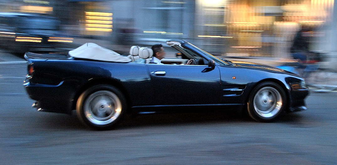 Aston Martin Vantage Volante LWB - one of one built by AML's Works Service department